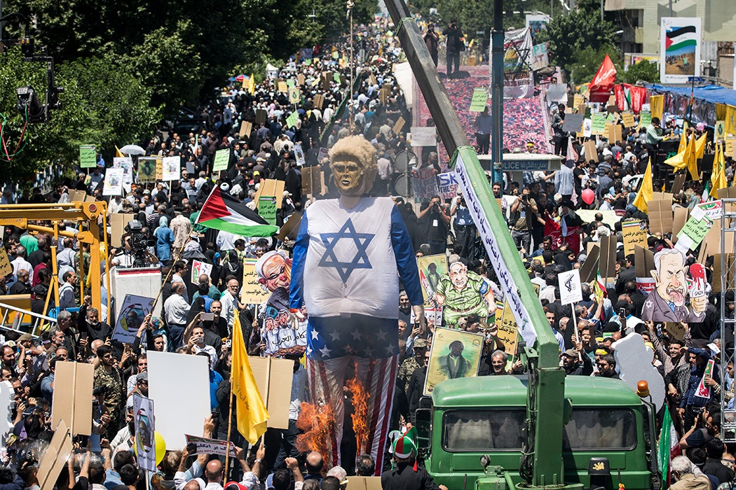 Solidarity in Iran with Gaza Palestinians and against Jerusalem's capitality of Israel